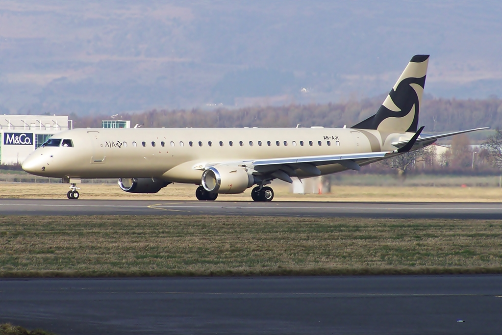 A6-AJI Embraer ERJ-190 Lineage of Al Jaber Aviation at Glasgow